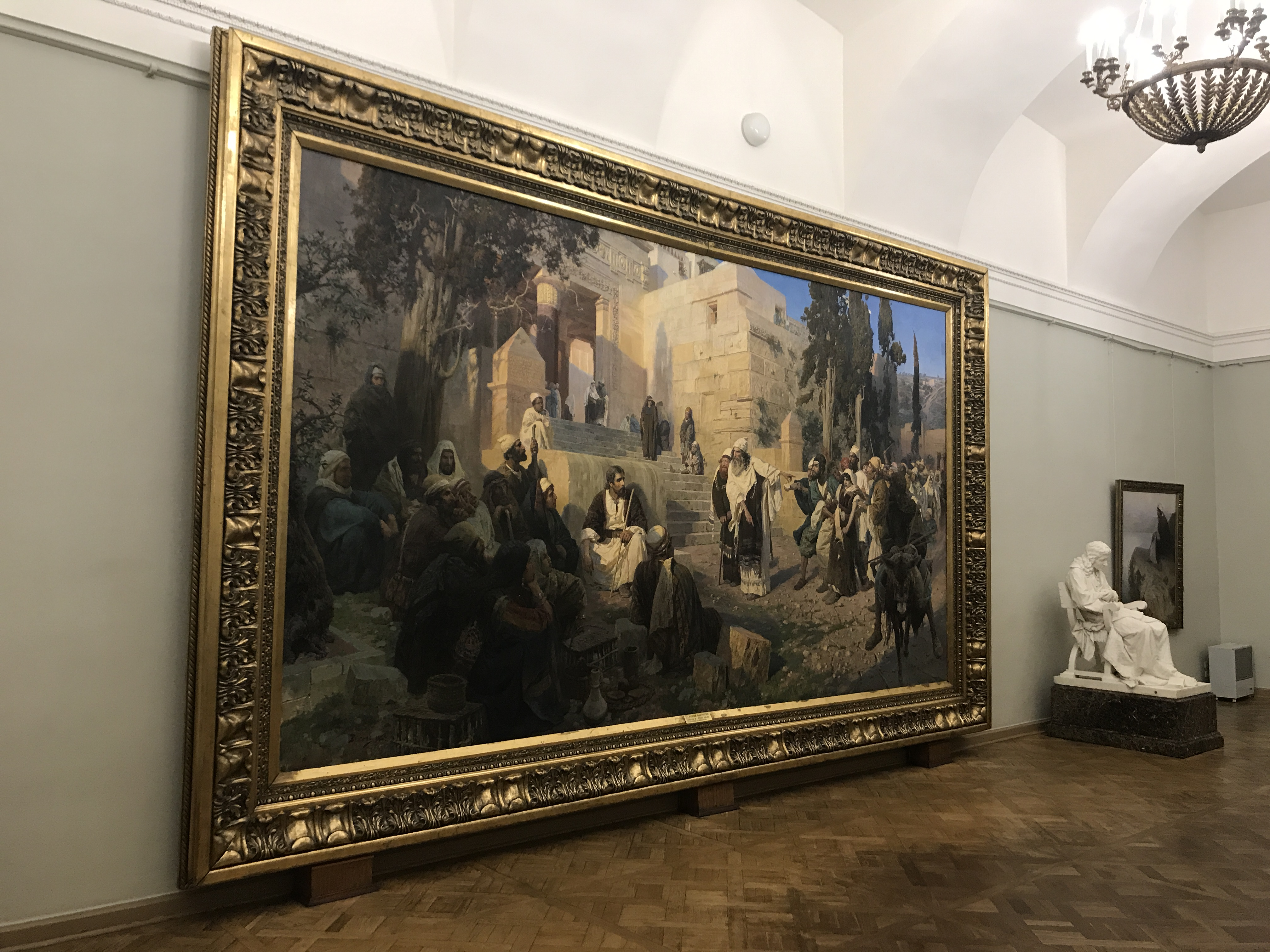 A depiction of Jesus and the woman taken in adultery